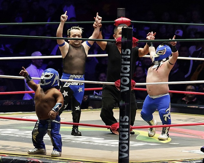 Viernes 30 de noviembre de 2018Arena México, ceremonia de develación de la placa conmemorativa por el reciente decreto de la Lucha Libre como Patrimonio Cultural Intangible de la Ciudad de México, estuvieron presentes autoridades del Consejo Mundial de Lucha Libre, y autoridades del gobierno de la CMDX, entre ellos Gabriela López Torres, coordinadora de Patrimonio Histórico Artístico y Cultural de la Secretaría de Cultura de la CDMX, además de invitados especiales.Fotografía: Tania Victoria/ Secretaría de Cultura CDMX